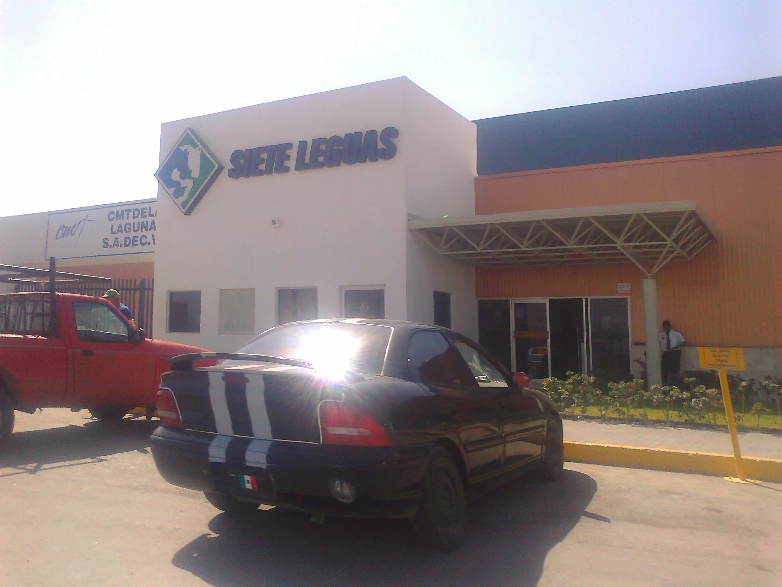 Siete Leguas, a jeans manufacturer in Lerdo, Mexico.